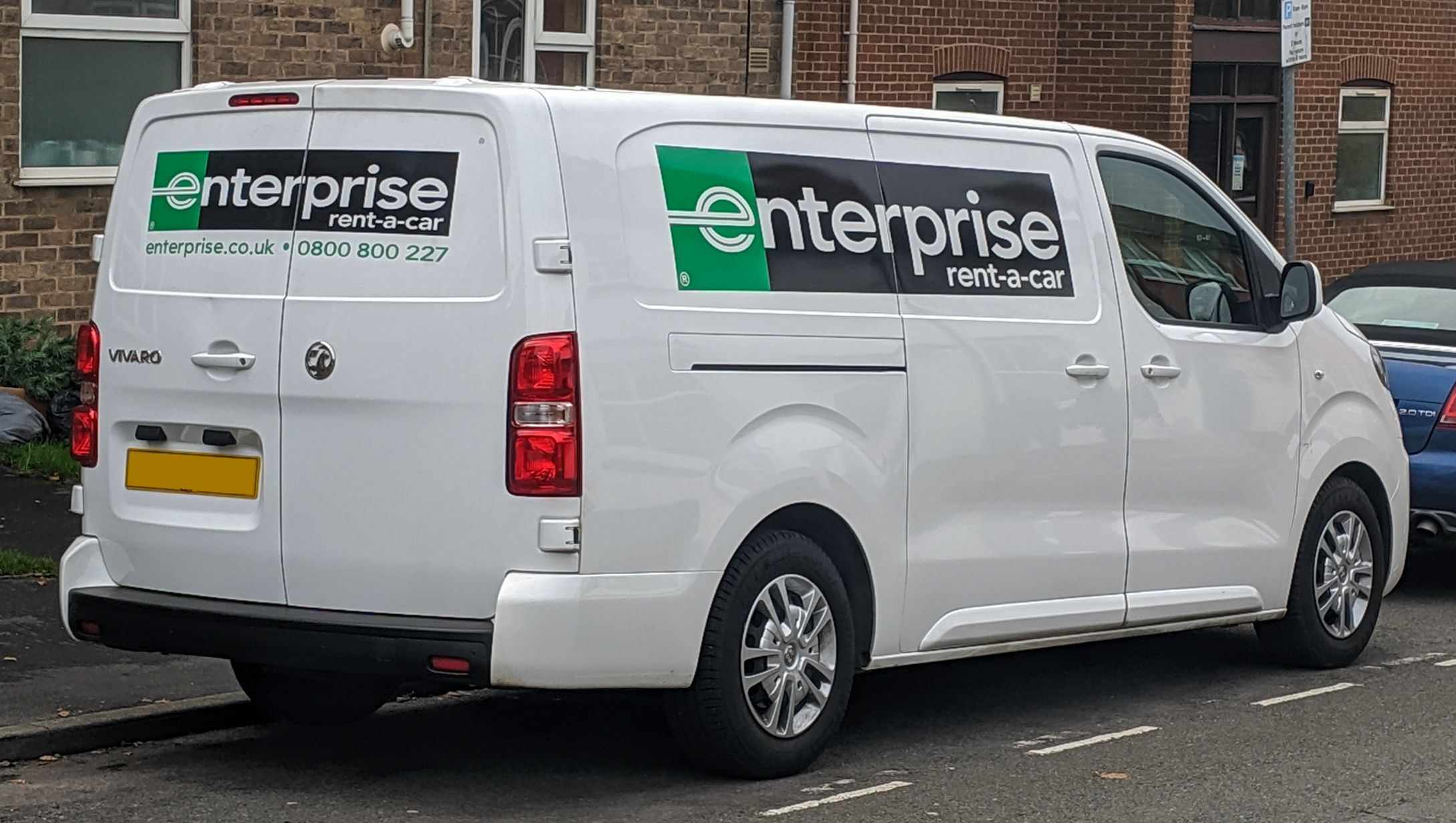 2019 Vauxhall Vivaro 3100 Sportive 2.0 Rear Taken in Warwick